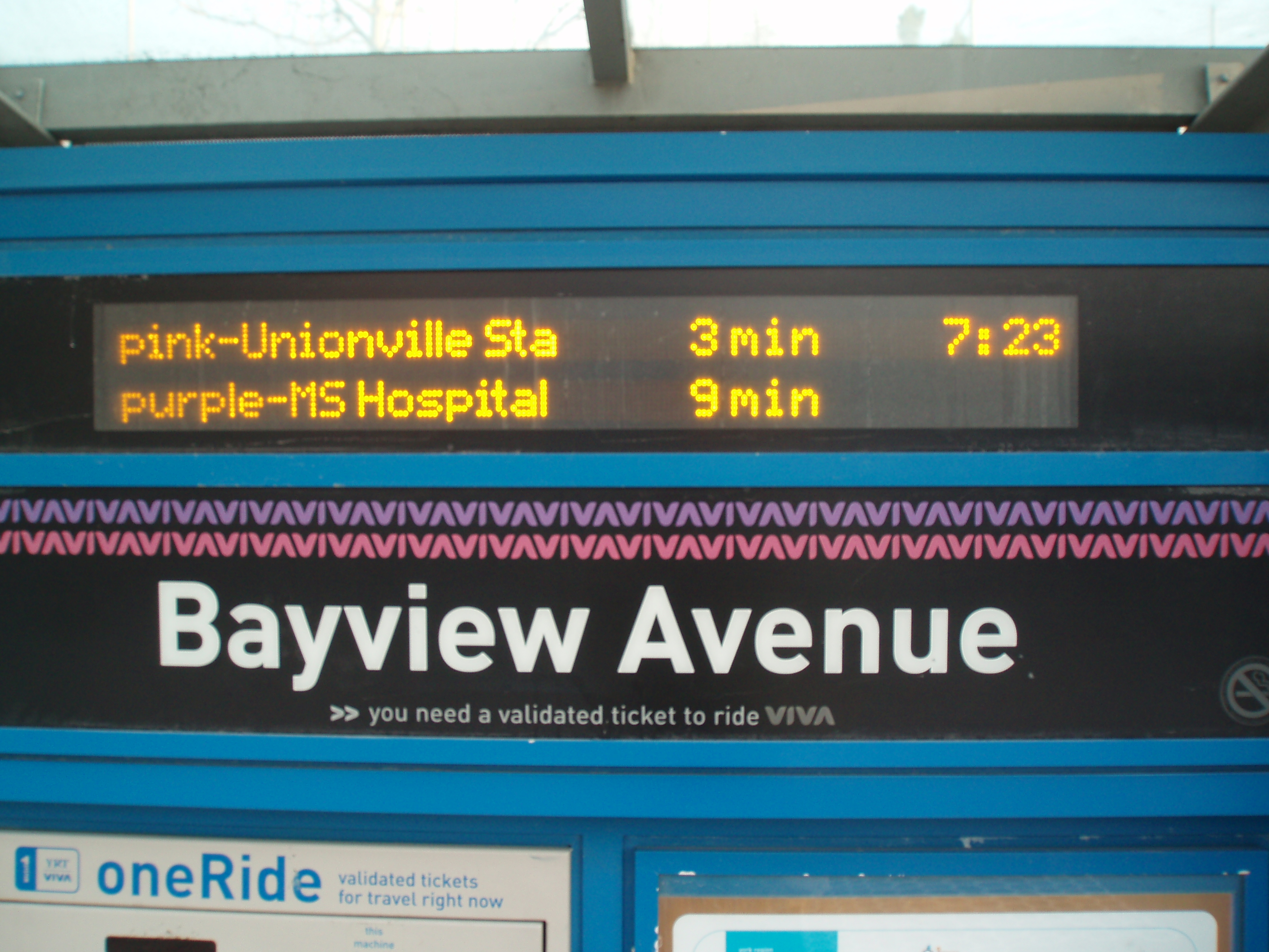 Real-time Vivasmart Display for Viva bus rapid transit